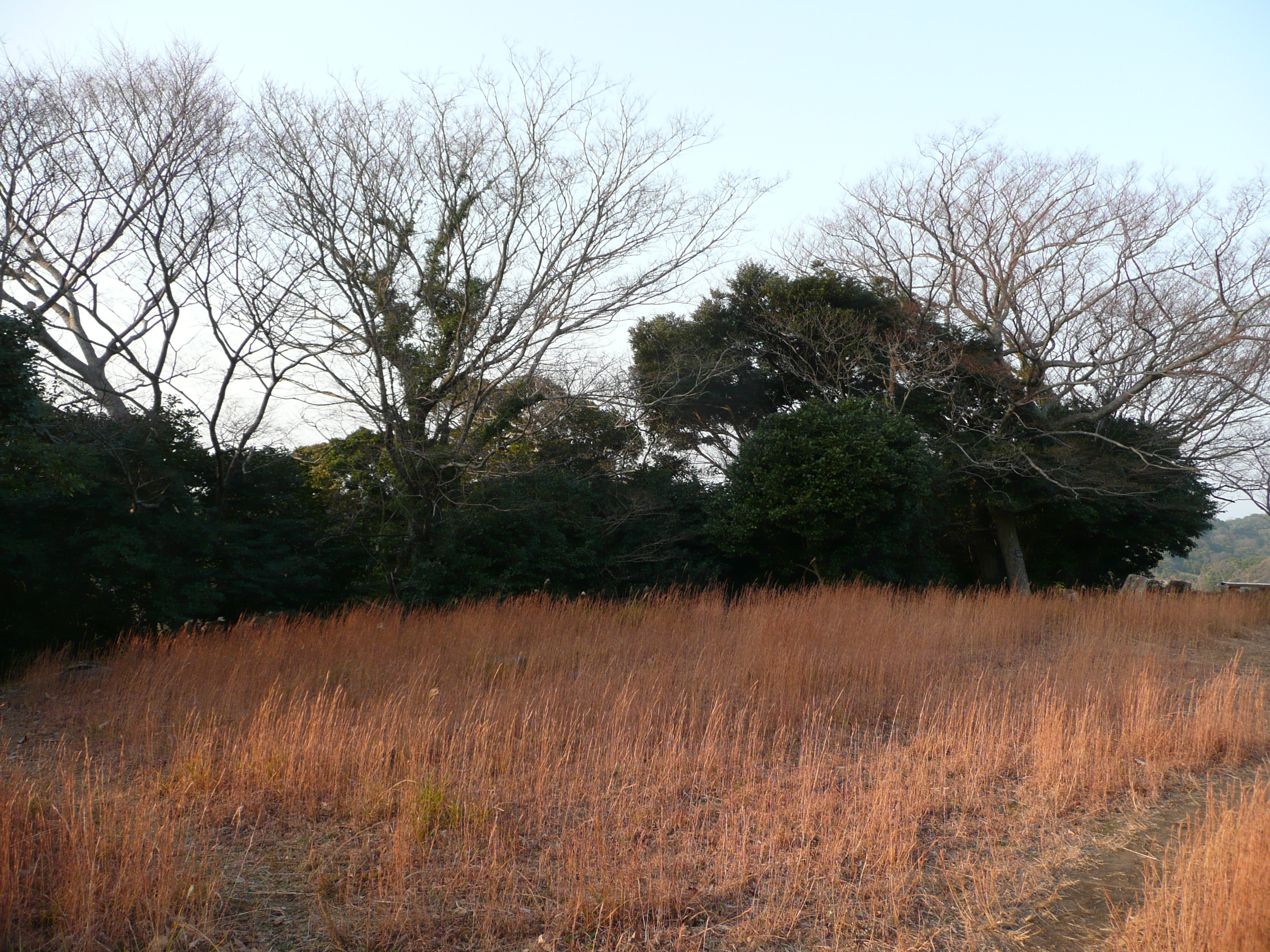 三重櫓跡